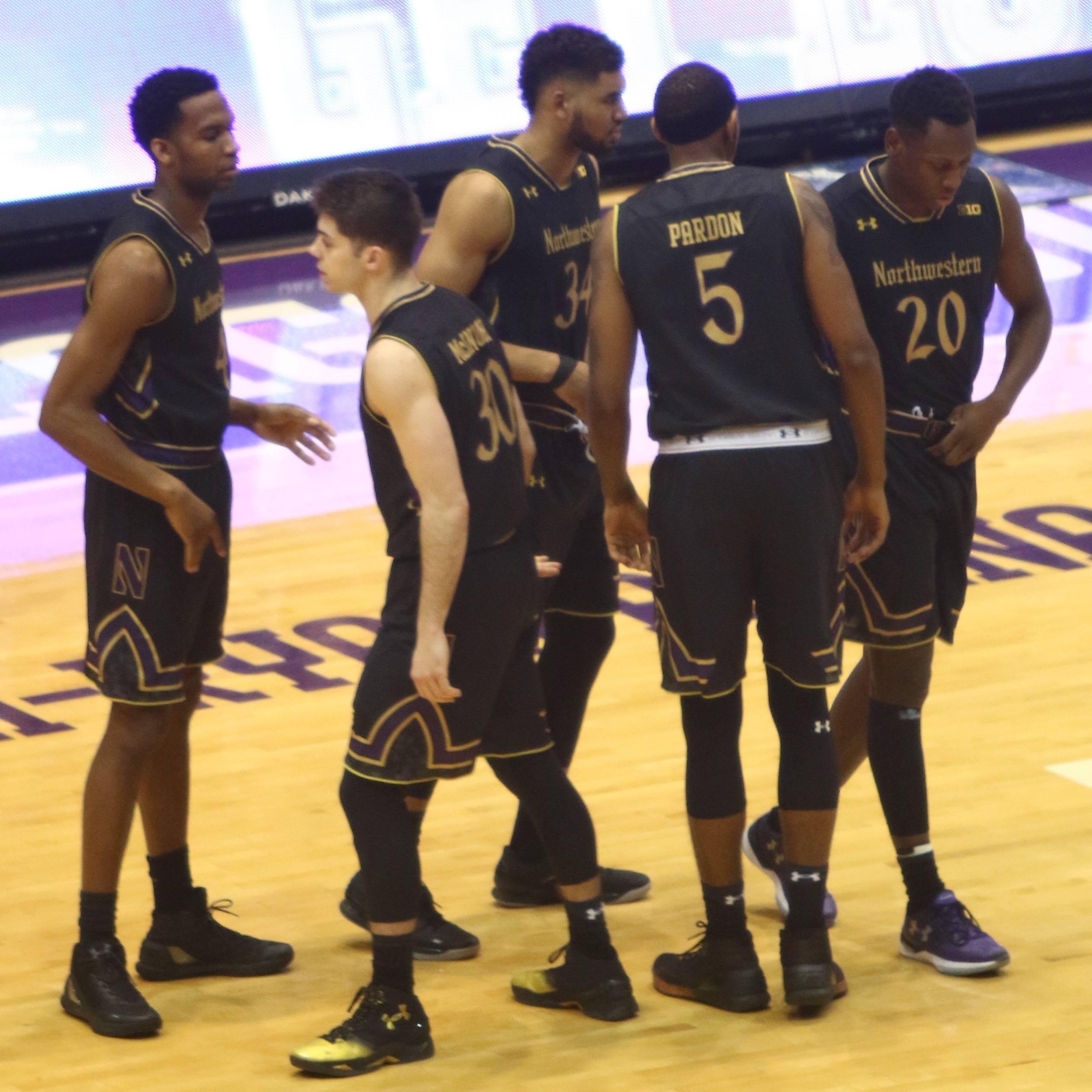 w:2016–17 Northwestern Wildcats men's basketball team starting 5: Vic Law, Bryant McIntosh, Sanjay Lumpkin, Derek Pardon, and Scottie Lindsey